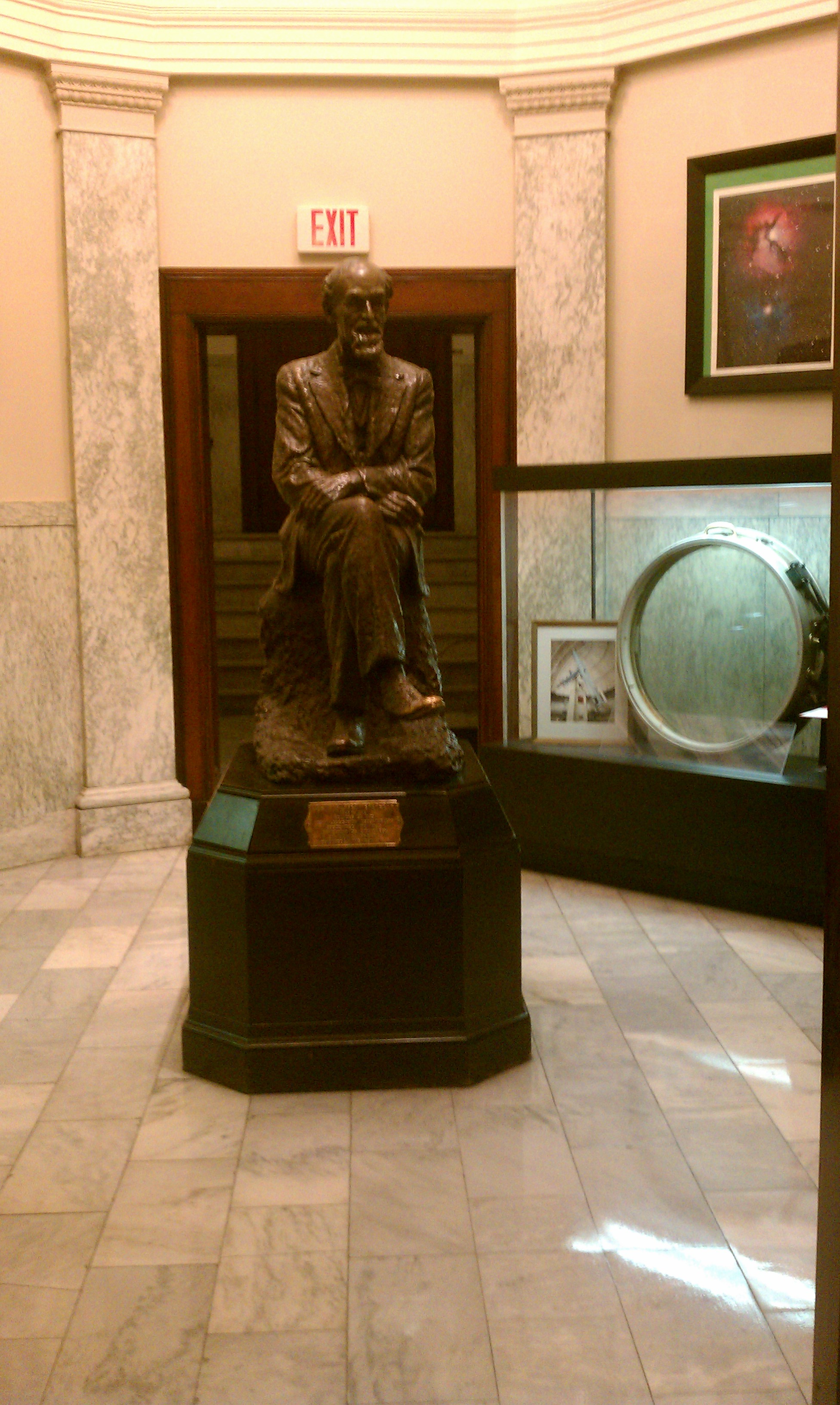 Allegheny Observatory The University of Pittsburgh's Allegheny Observatory